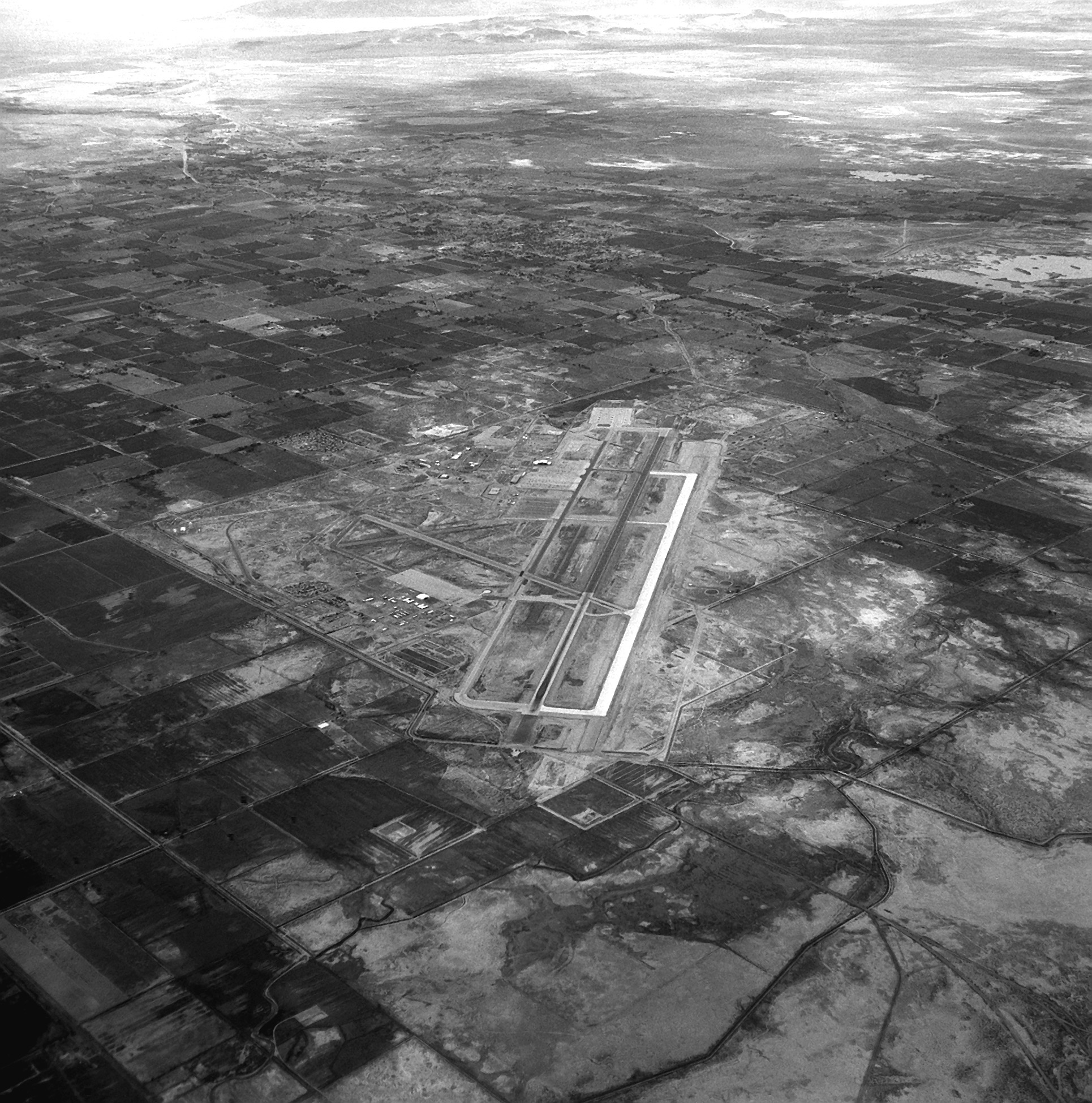 Aerial view of the installation.Location: NAVAL AIR STATION, FALLON, NEVADA (NV) UNITED STATES OF AMERICA (USA)